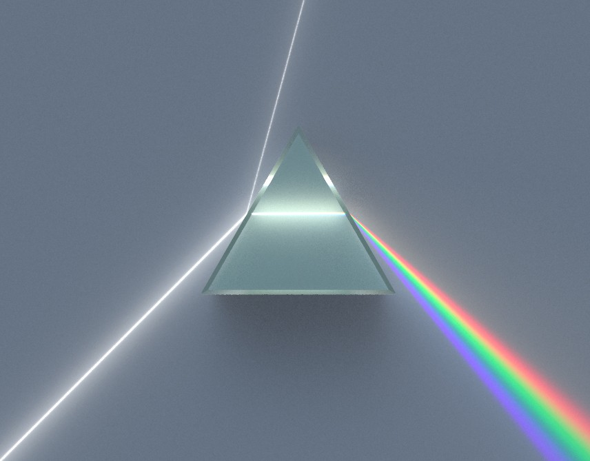 A dispersive equillateral prism refracting and reflecting an incoming beam of uniform white light rendered into the sRGB IEC61966-2.1 color space